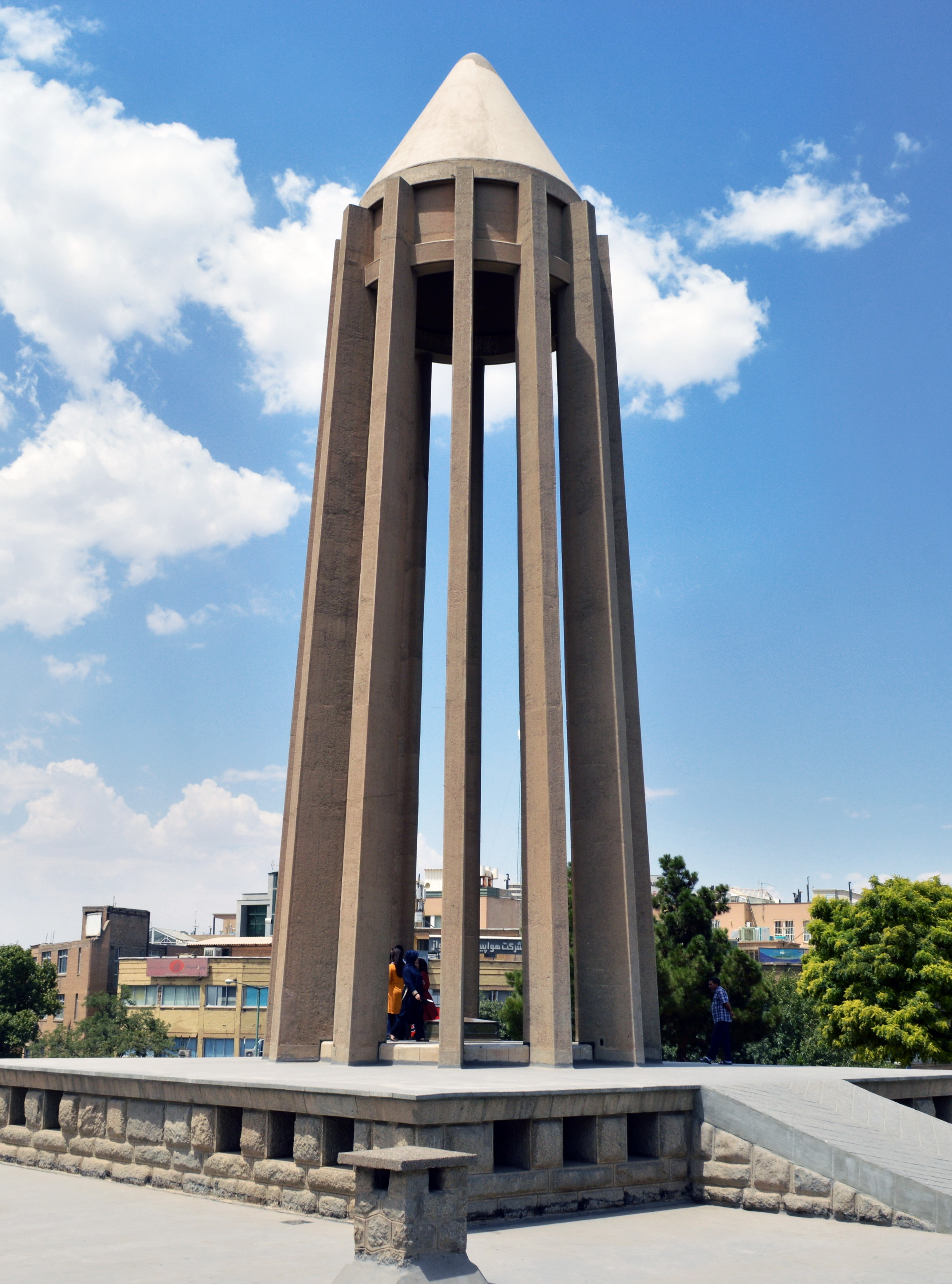 Aboo AliSina Tomb